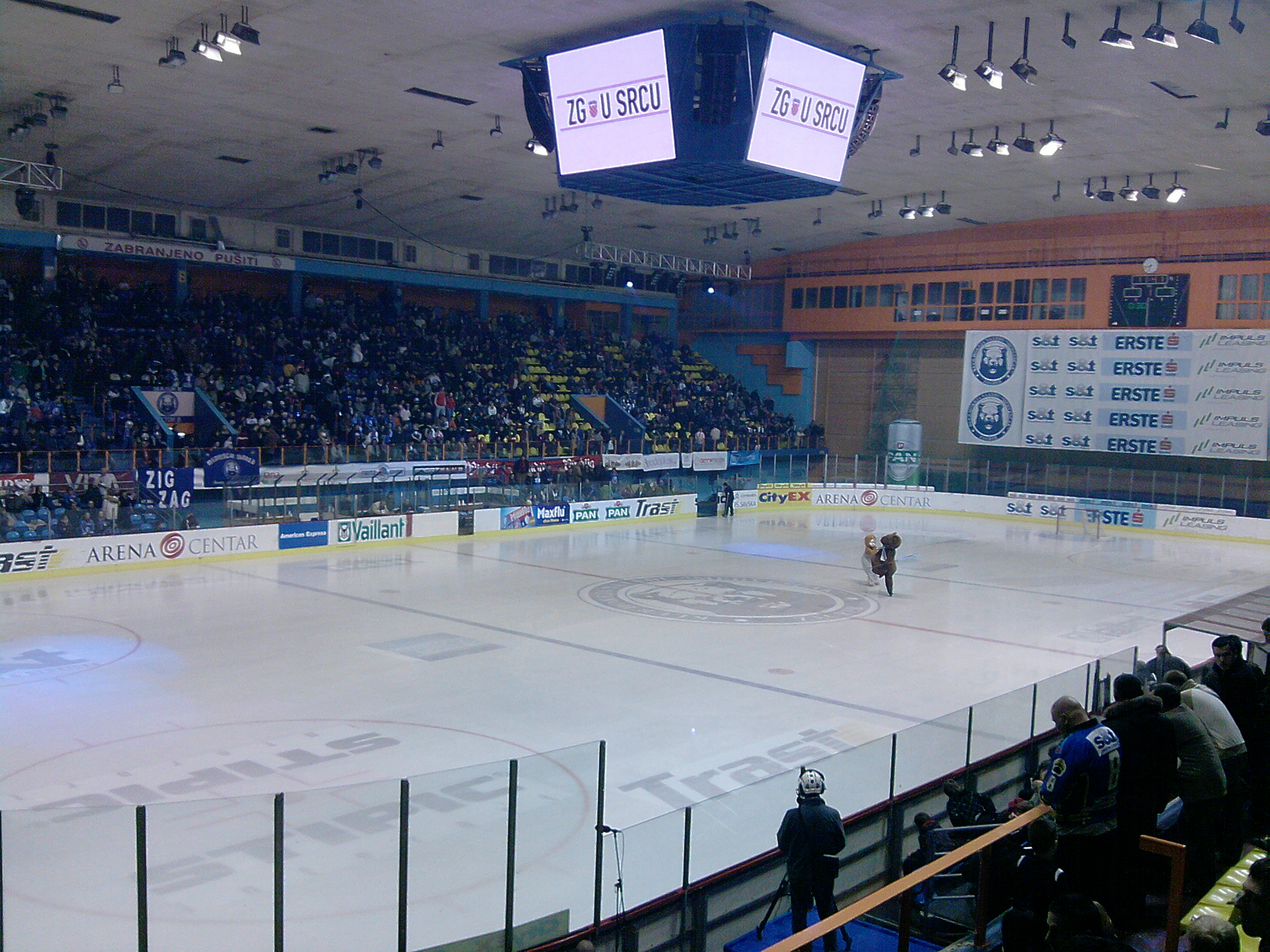 KHL Medveščak Zagreb - Graz 99ers 2010-01-03